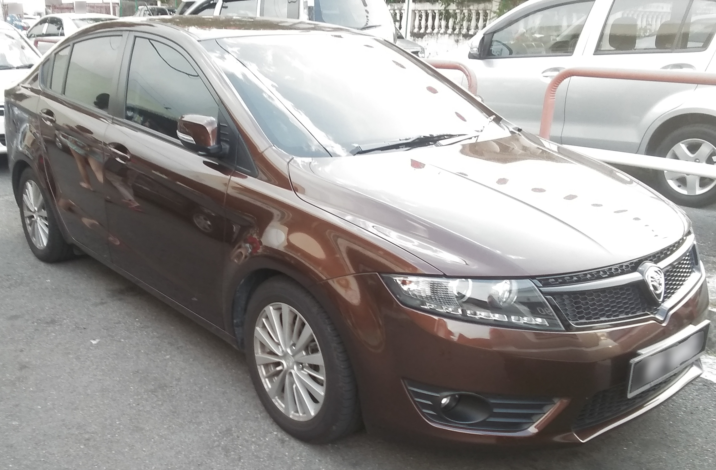 The Preve MC or minior change only lasted about a model year before production ended. The Executive variant of Preve MC has the wheels from the Inspira and the front grille from the Suprima and the rear garnish and front Proton wings finished in black.